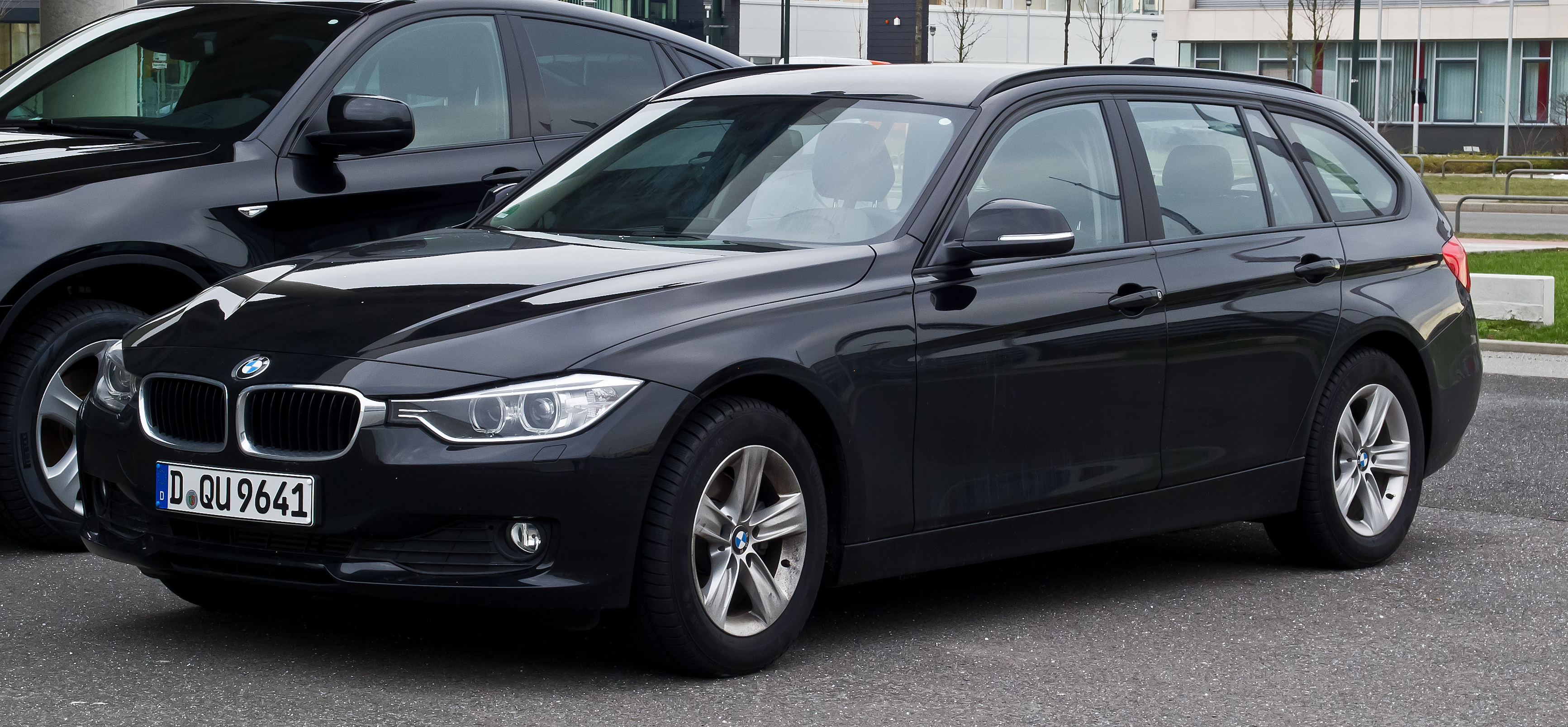 BMW 320d Touring (F31)